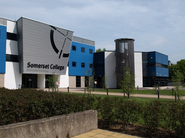 Somerset College of Arts and Technology - a view of the main facade